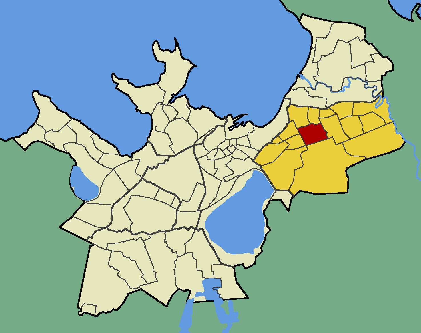 Map of Tallinn (Estonia) with borders of the quarters, Lasnamäe district and Laagna quarter emphasised